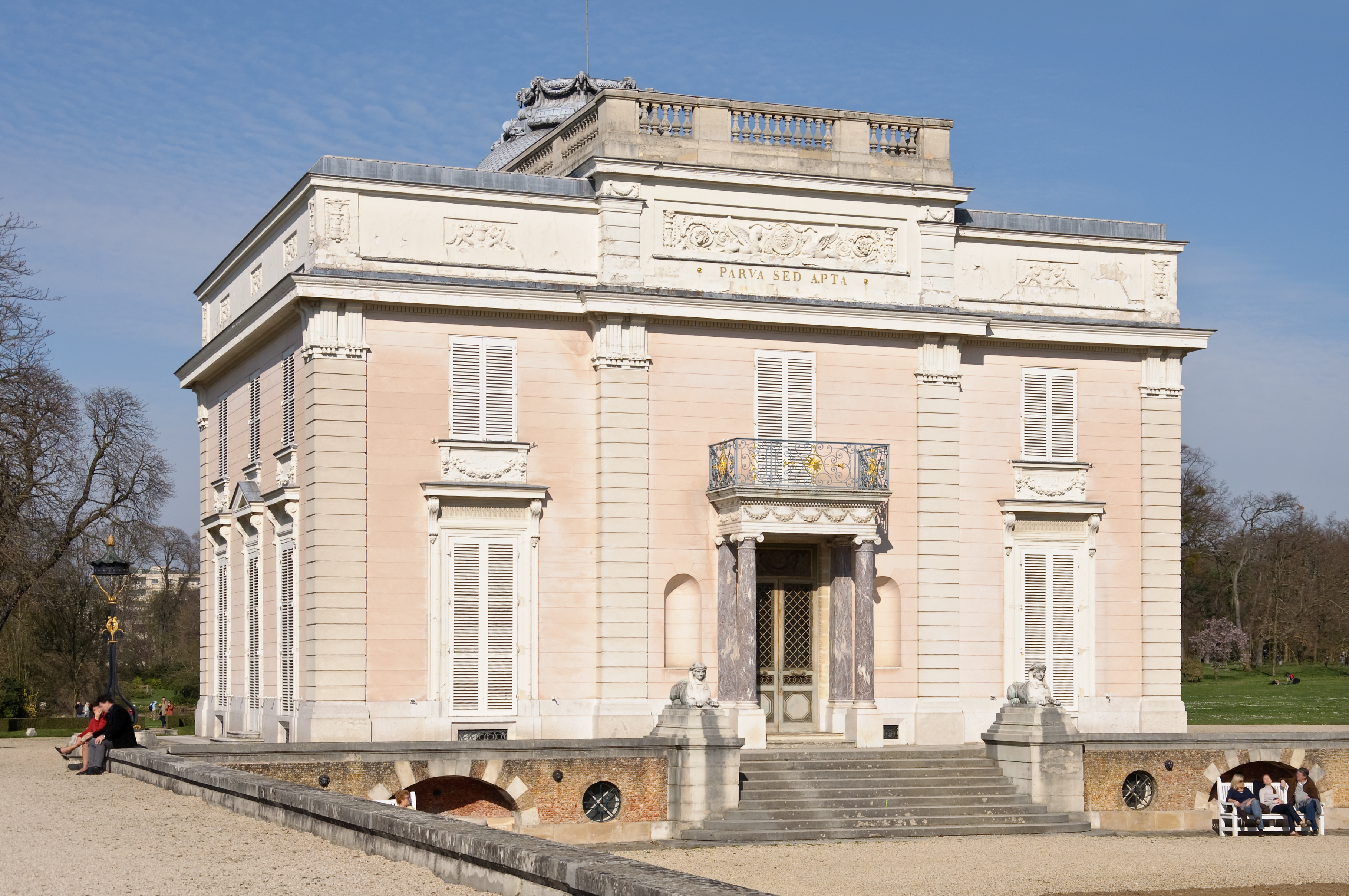 Château de Bagatelle, Paris, France: main entrance